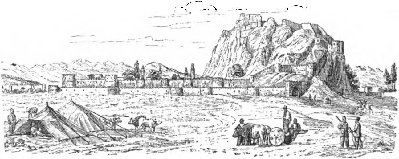 Extracted image from page 177 of the source book; image caption: „Die Festung Wan, von den „Gärten“ aus gesehen.“